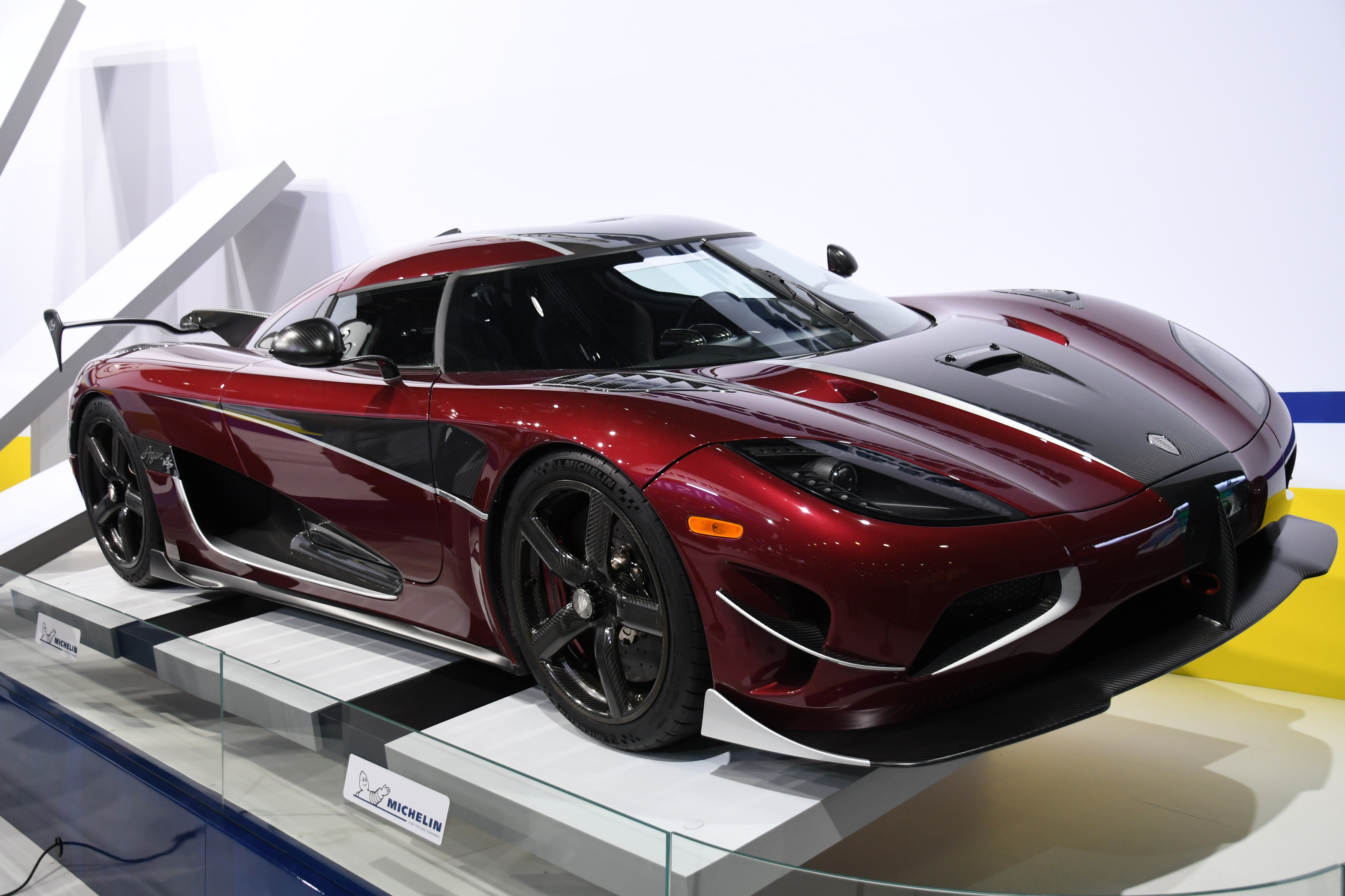 A scene from public display days of the 2018 North American International Auto Show held in Cobo Center in downtown Detroit, Michigan. January, 2018